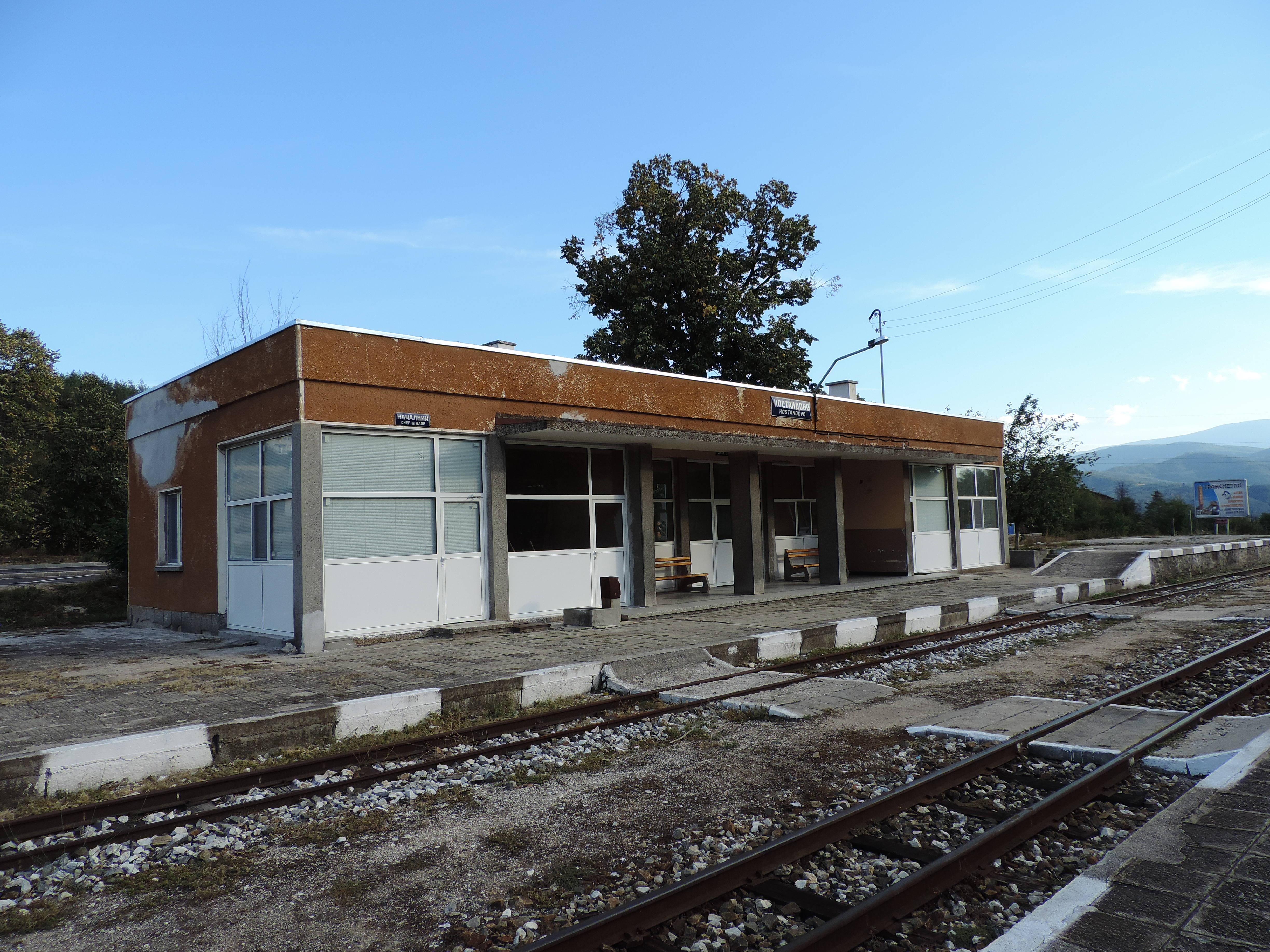 Kostandovo Railway Station, Septemvri-Dobrinishte narrow gauge line, Bulgaria.